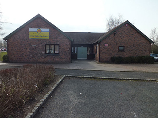 Front of nursery in Shawbirch